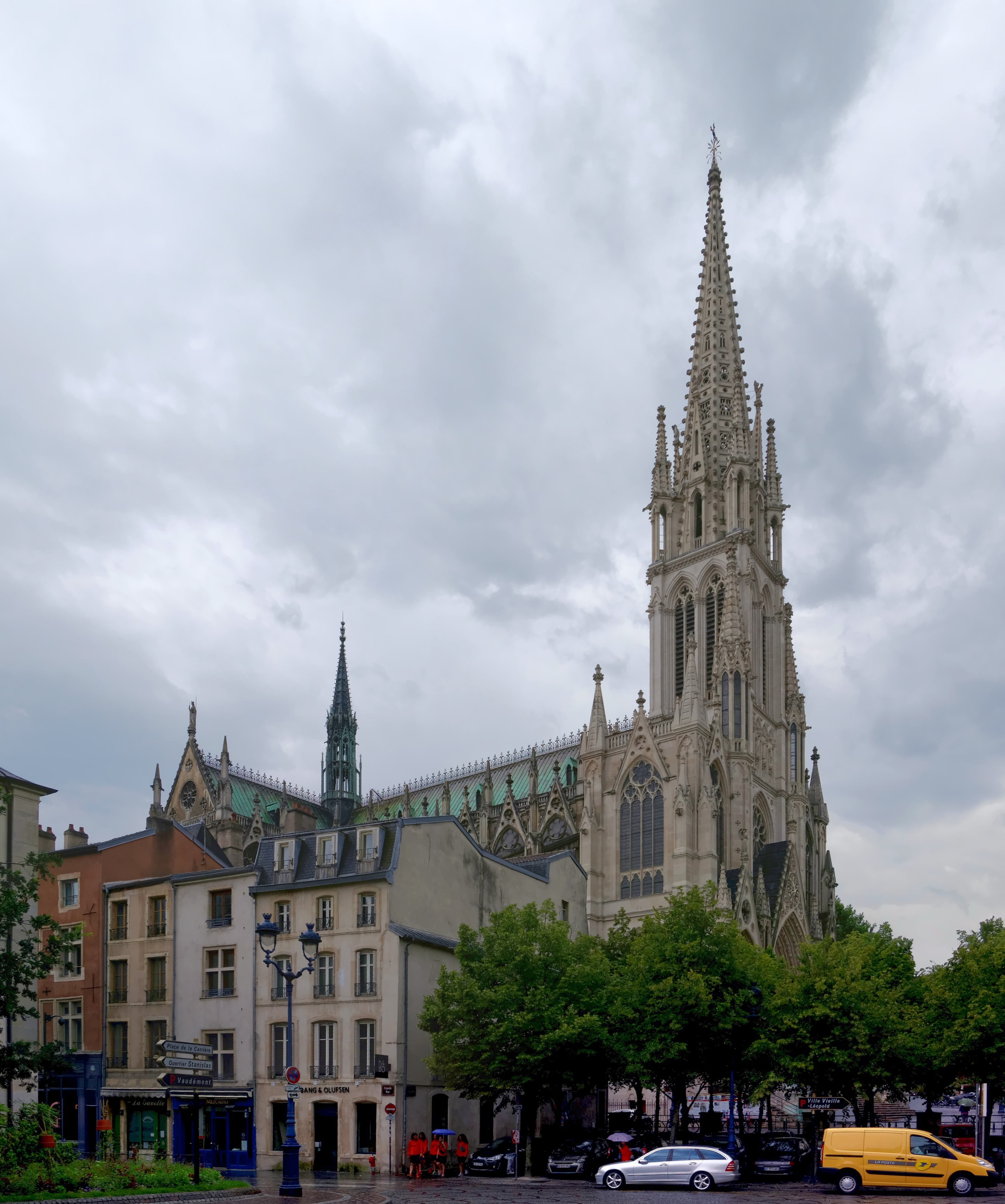 France, Nancy, Basilique Saint-Epvre